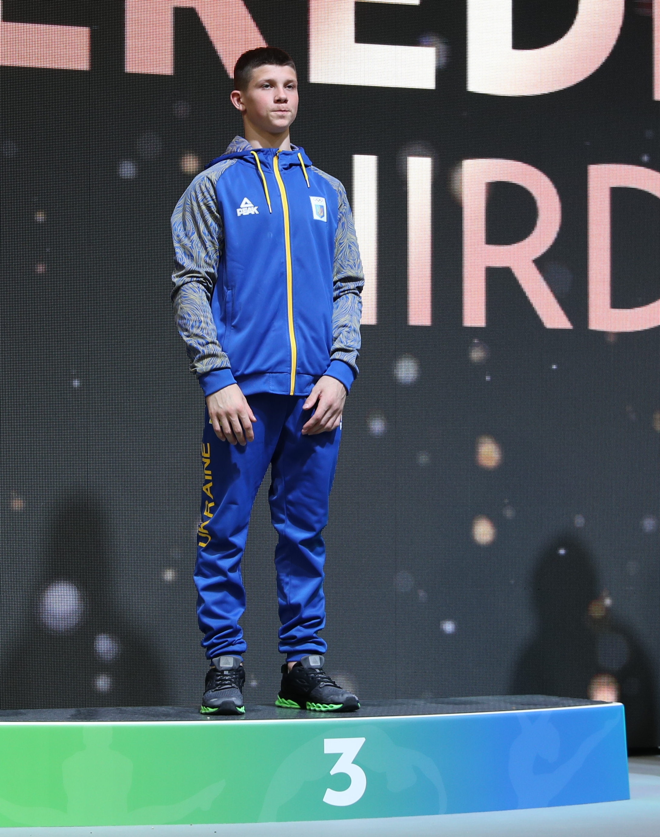 Victory ceremony for the boys' all-around final at the 1st FIG Artistic Gymnastics Junior World Championships on 27 June 2019 in Győr, Hungary. Depicted: Illia Kovtun.